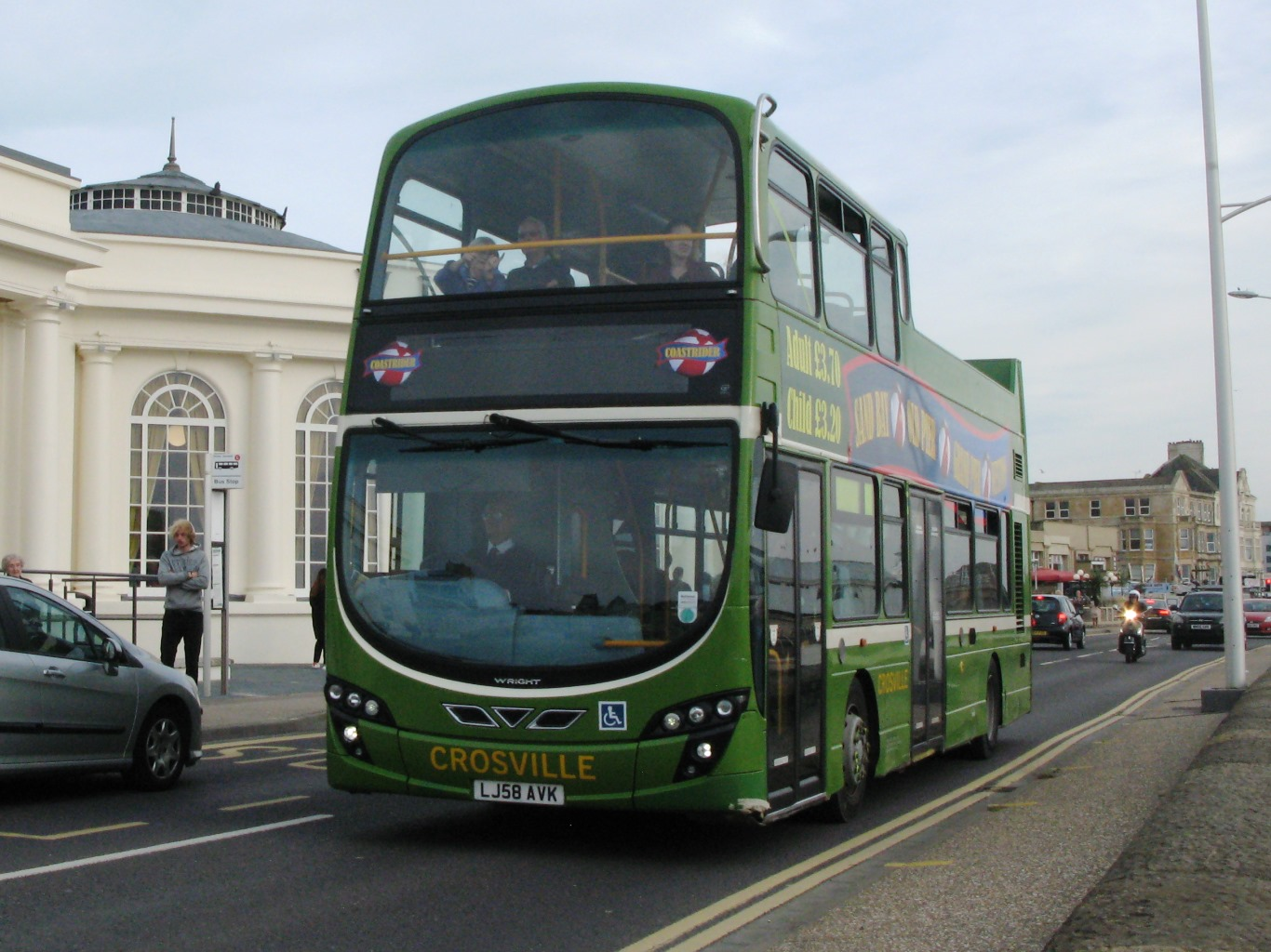 Crosville Motor Services' 408 passes the Winter Gardens in Weston-super-Mare while on route 100 to Sand Bay. Carrying registration plate LJ58AVK, it is a diesel/electric hybrid Wright Gemeini.